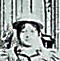 Julienne Mathieu in Hotel eléctrico (1908) de Segundo de Chomón